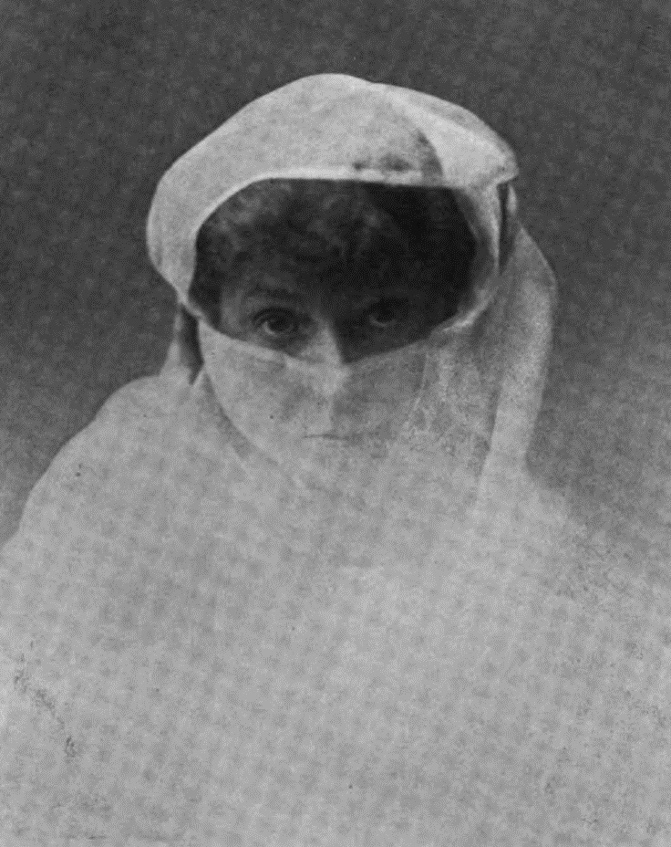 Myriam Harry